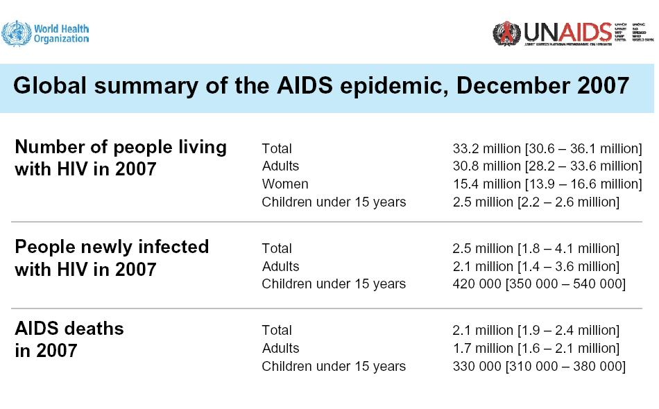 HIV statistics 2007